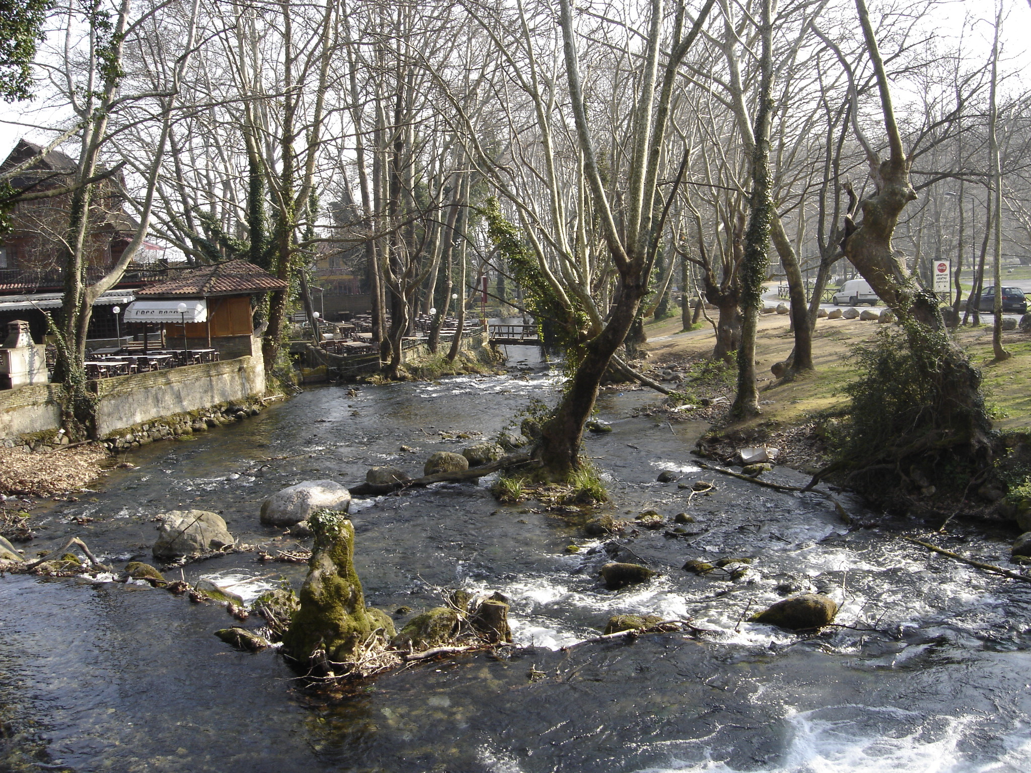 Arapitsa river flowing through the city of Naoussa, Greece.